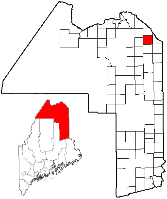 Adapted from U.S. Census Bureau maps (American FactFinder) and Wikipedia's ME county maps by Bumm13.